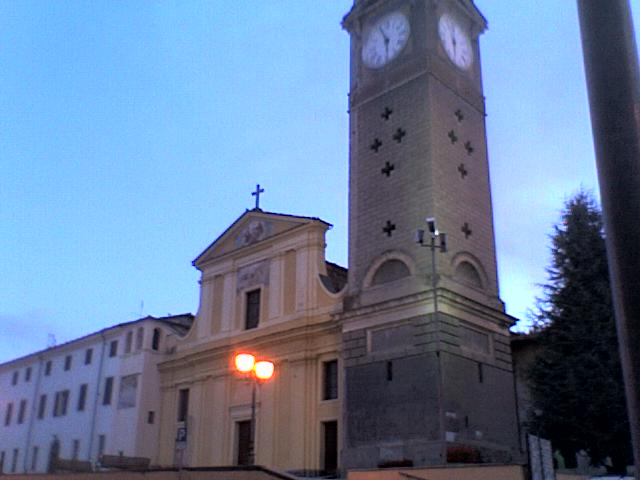 Santa Maria's Church in Bricherasio, province of Turin, Piedmont, italy